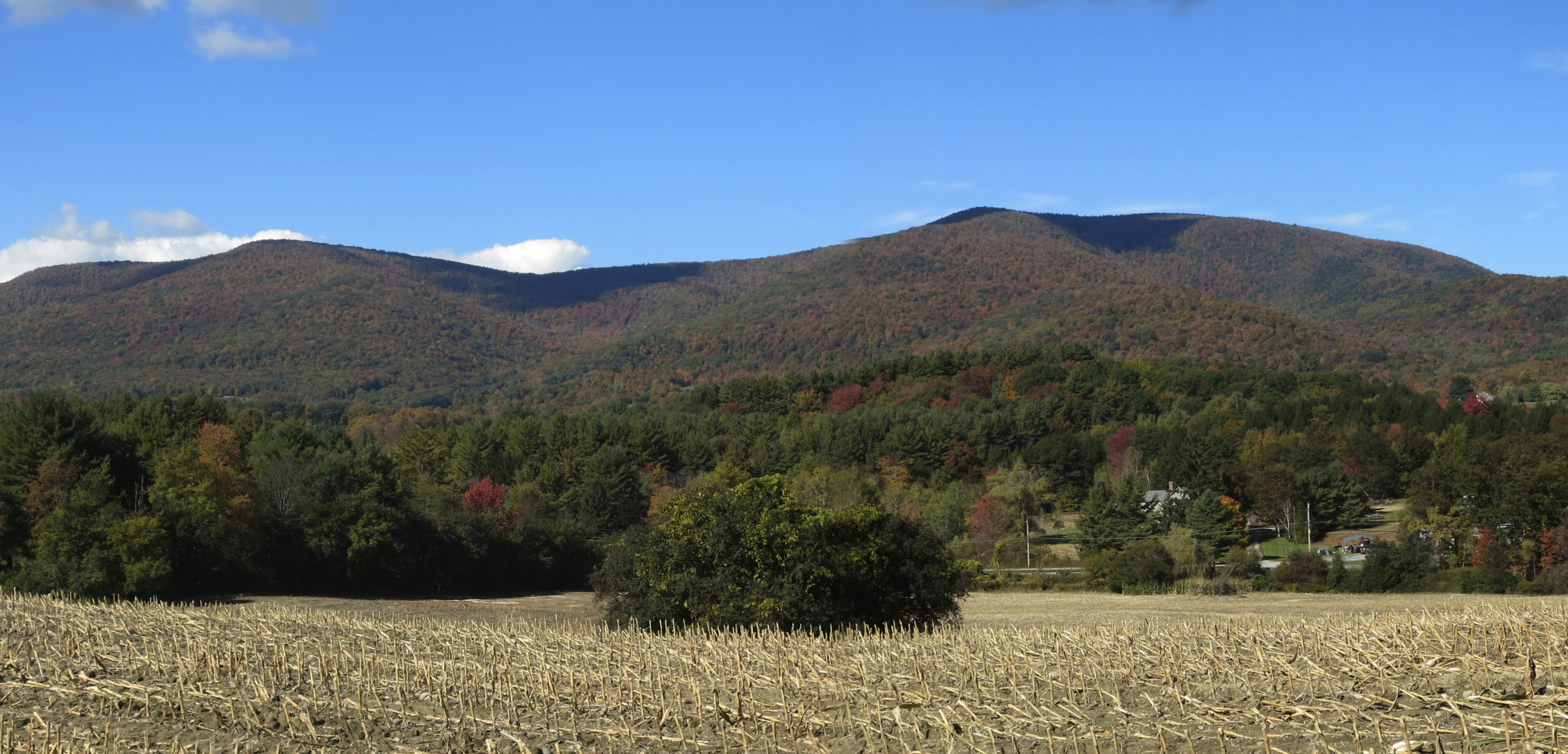 viewed from the east in South Williamstown